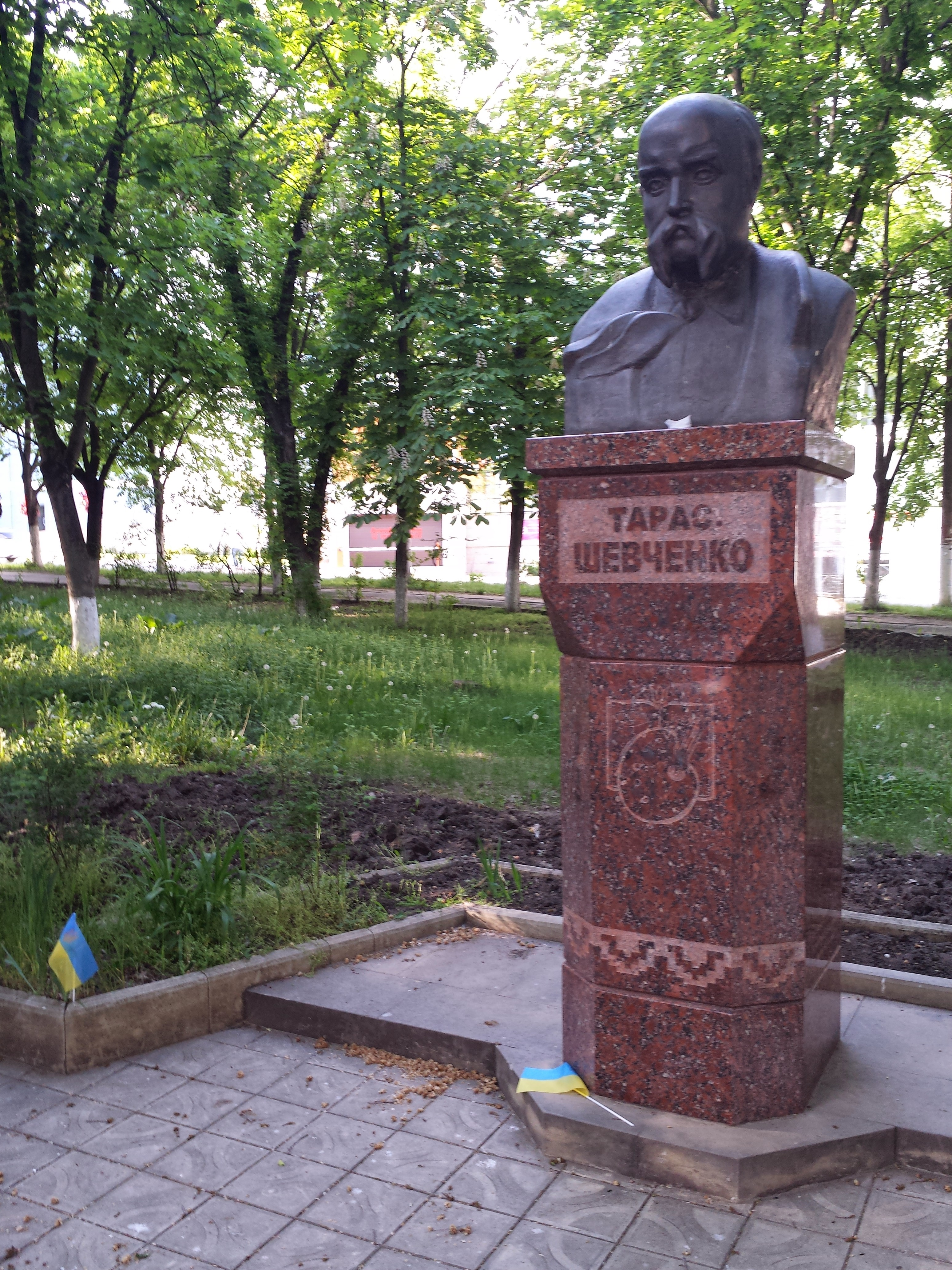 Taras Shevchenko monument in Chisinau (Moldova).